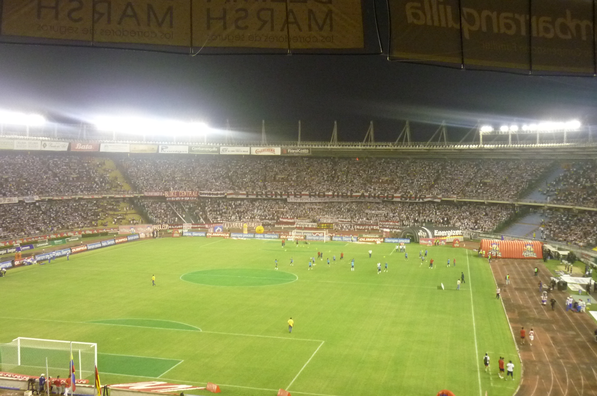 Metropolitano Stadium Barranquilla